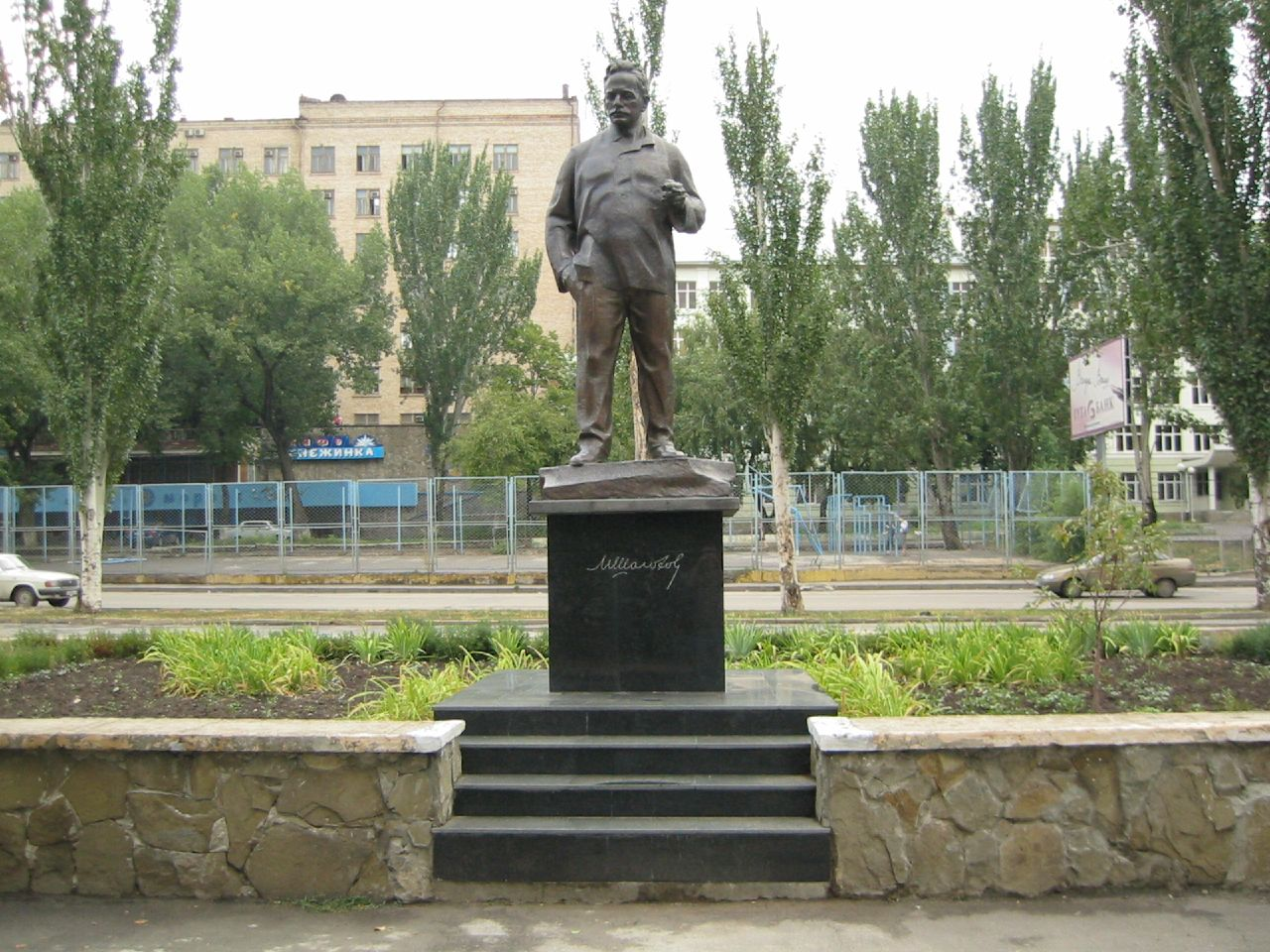 Monument to Mikhail Sholokhov in Rostov-on-don